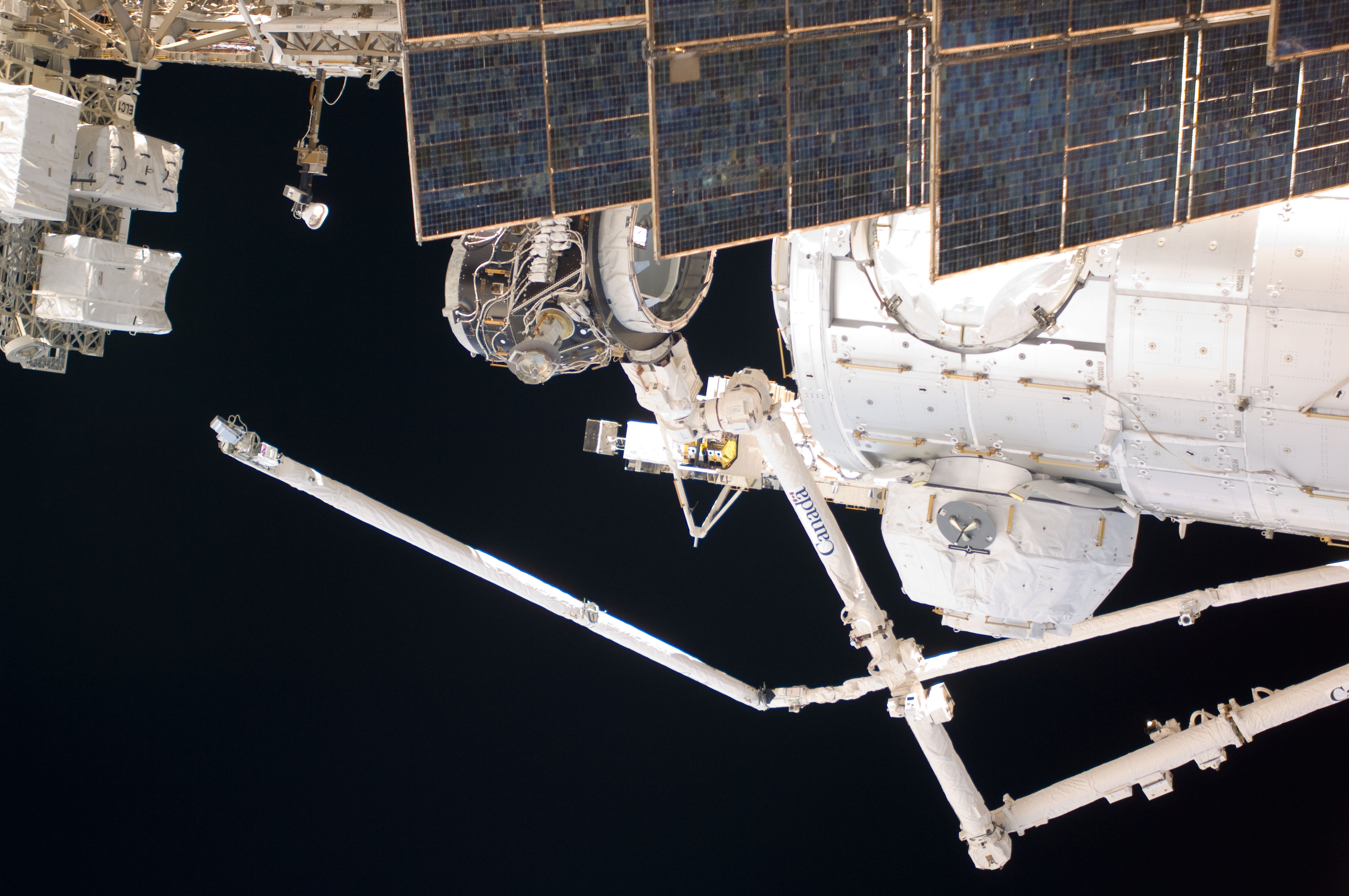 In the grasp of the Canadarm2, the Pressurized Mating Adapter 3 (PMA-3) is relocated from the Harmony node to the open port on the end of the newly-installed Tranquility node (right). NASA astronauts Robert Behnken and Nicholas Patrick, both STS-130 mission specialists, operated the station's robotic arm for the move, while Jeffrey Williams, Expedition 22 commander; and Japan Aerospace Exploration Agency (JAXA) astronaut Soichi Noguchi, Expedition 22 flight engineer, dealt with latches and bolts, connecting the port to its new home. Tranquility's Cupola is visible at lower right.